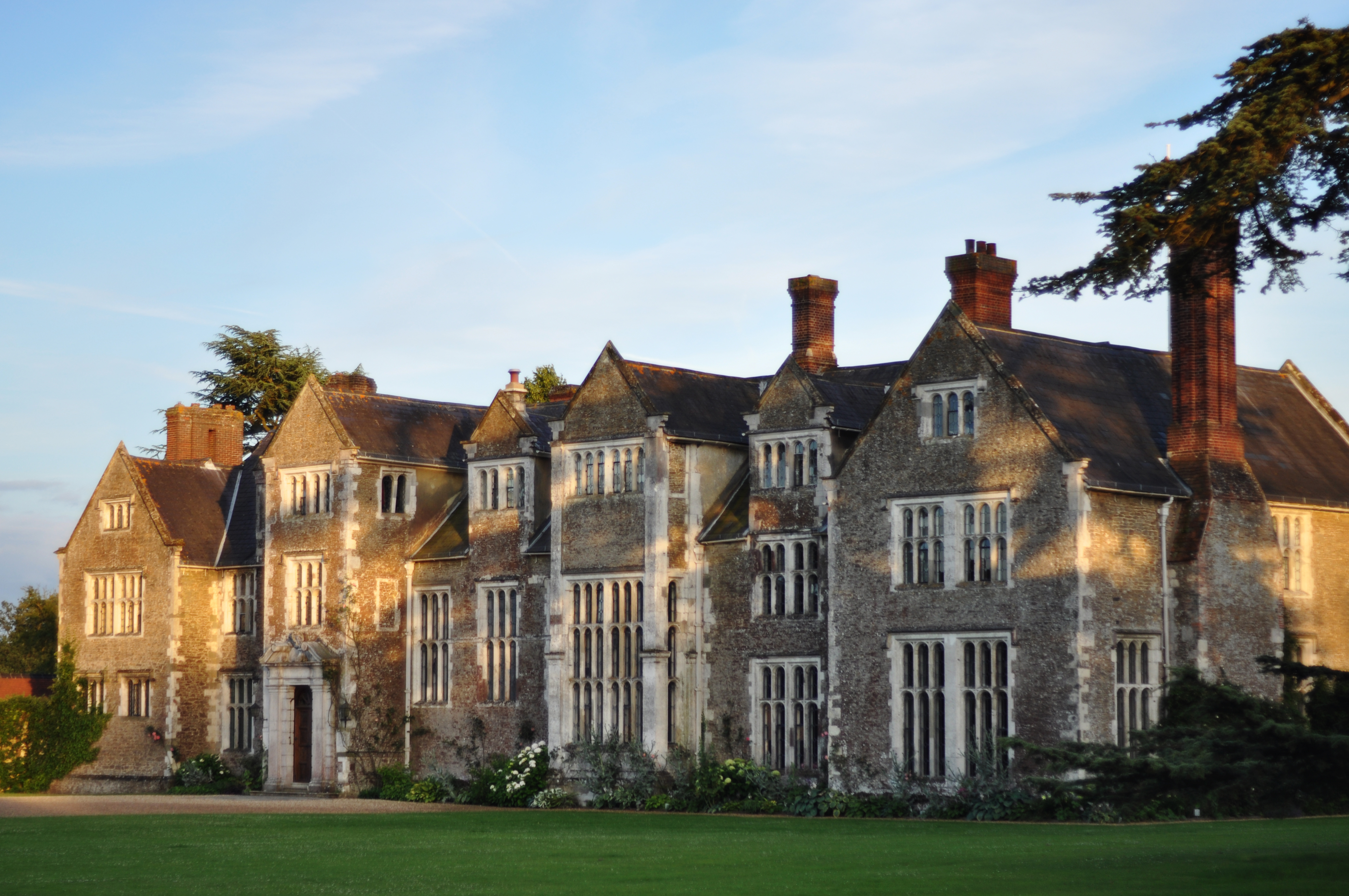 Loseley House, as pictured in 2012.